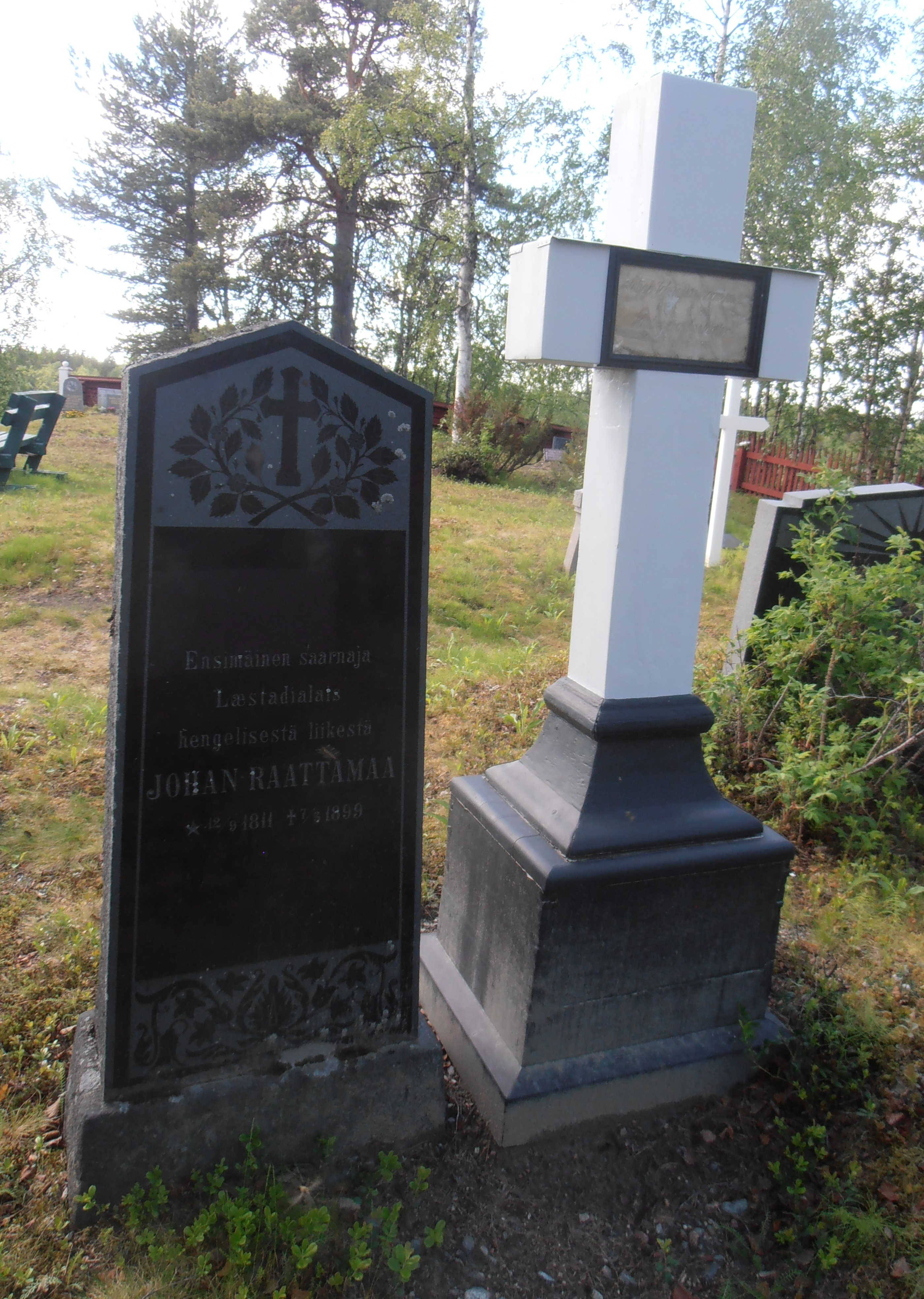 The gravestone and cross of the Laestadian preacher Johan Raattamaa (1811-1899) on the old cemetery in Karesuando